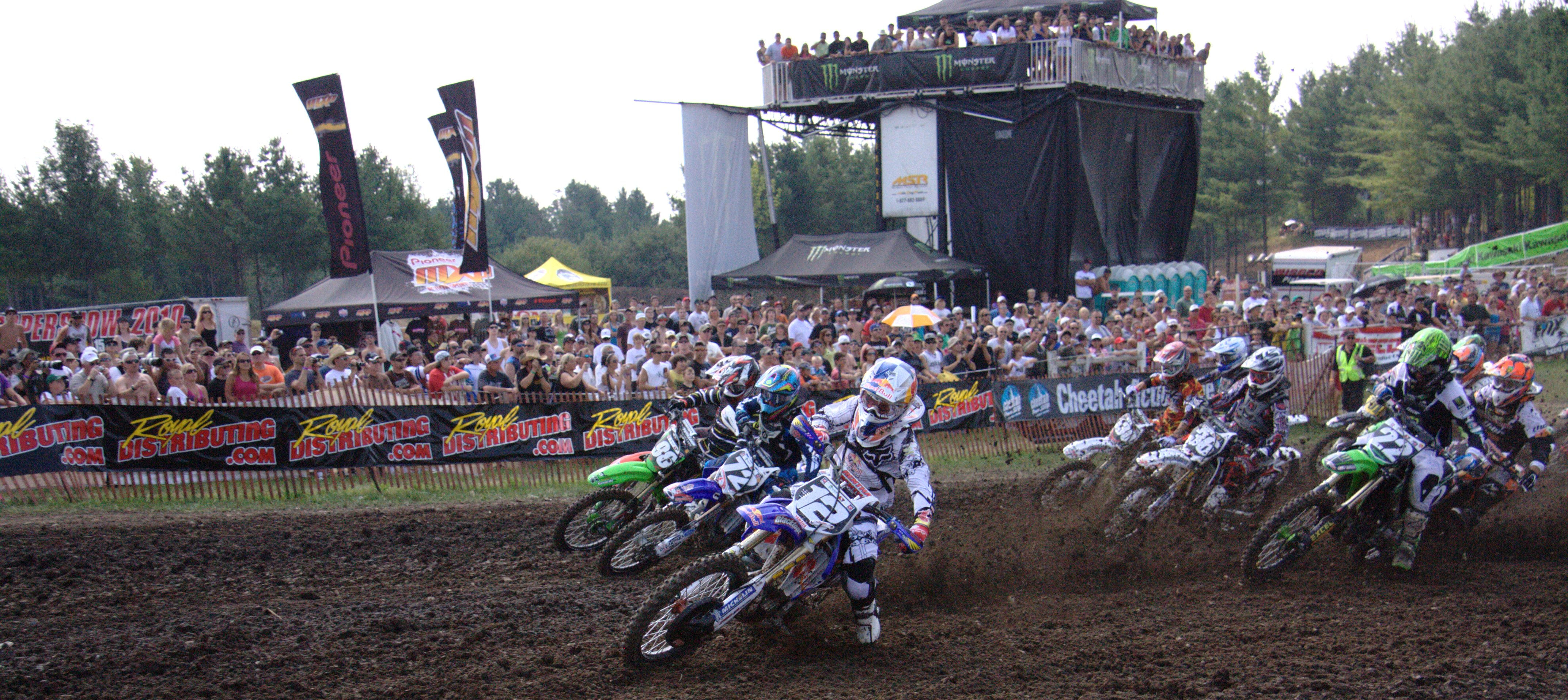 Walton TransCan GNC motocross MX2 class first corner 2009